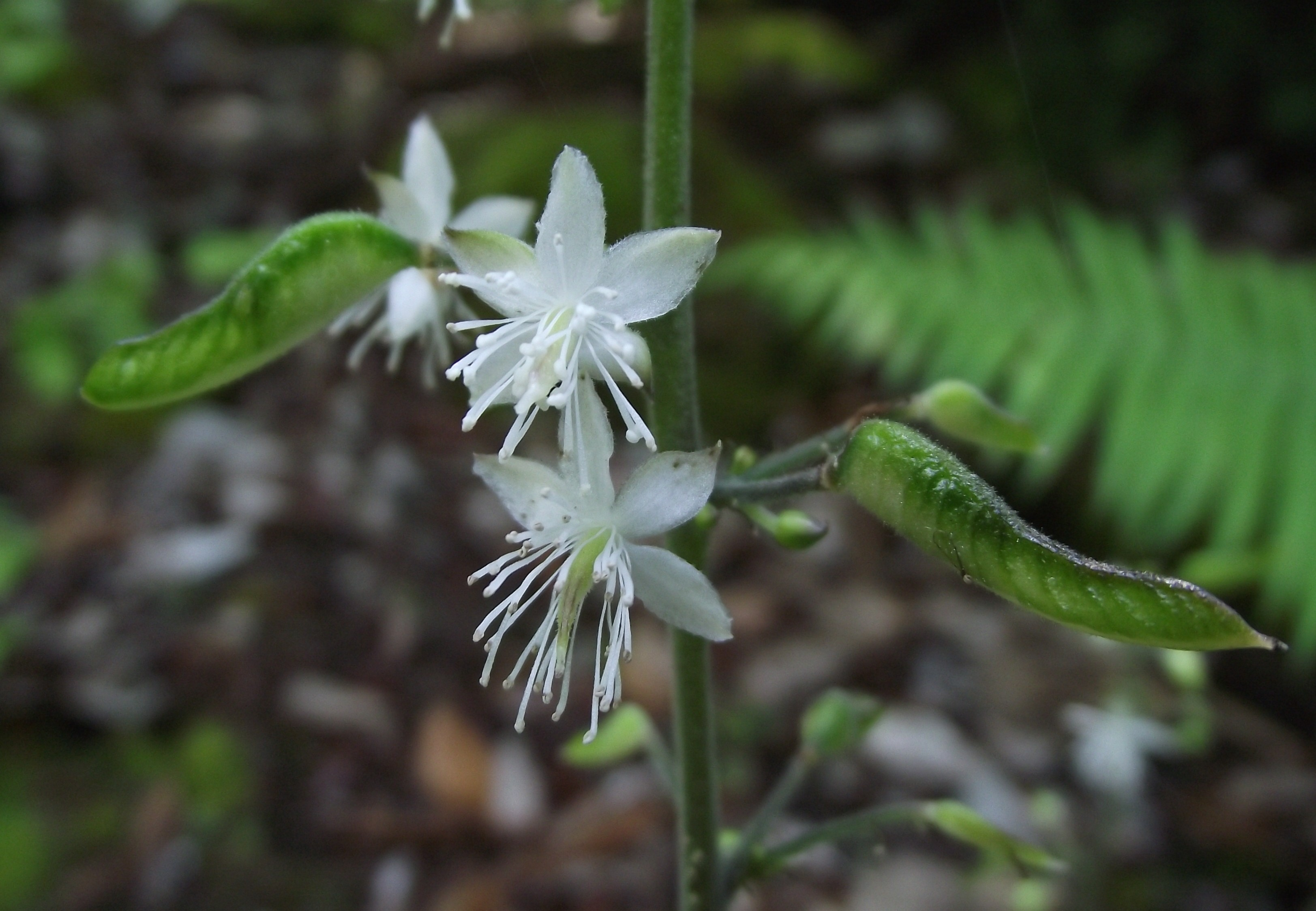 Beesia deltophylla in the UC Botanical Garden, Berkeley, California, USA. Identified by sign.